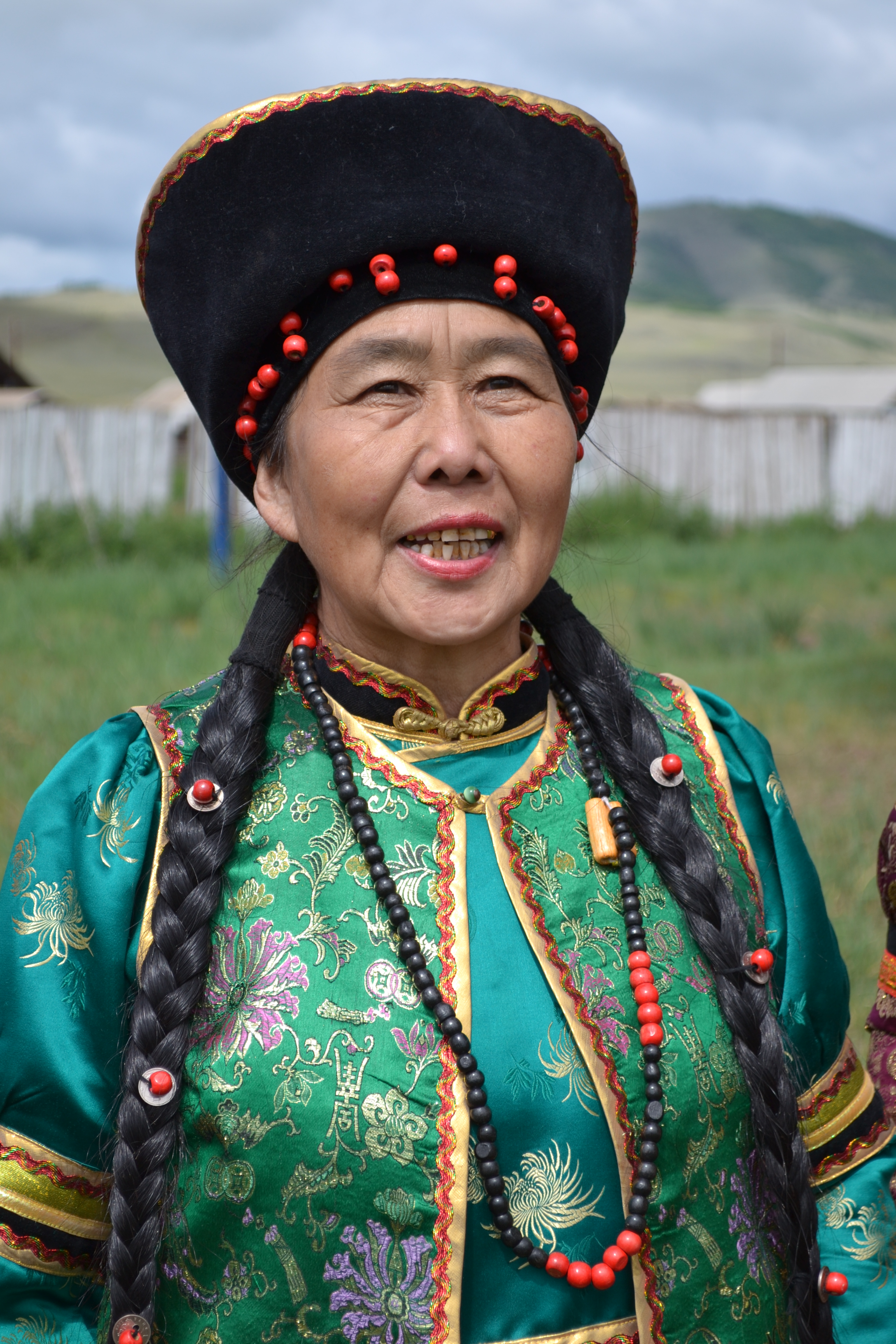 Rosa Lygdenova. Sartuul woman from Tsagatuy village, Dzhidinsky District in the Republic of Buryatia, Russia.